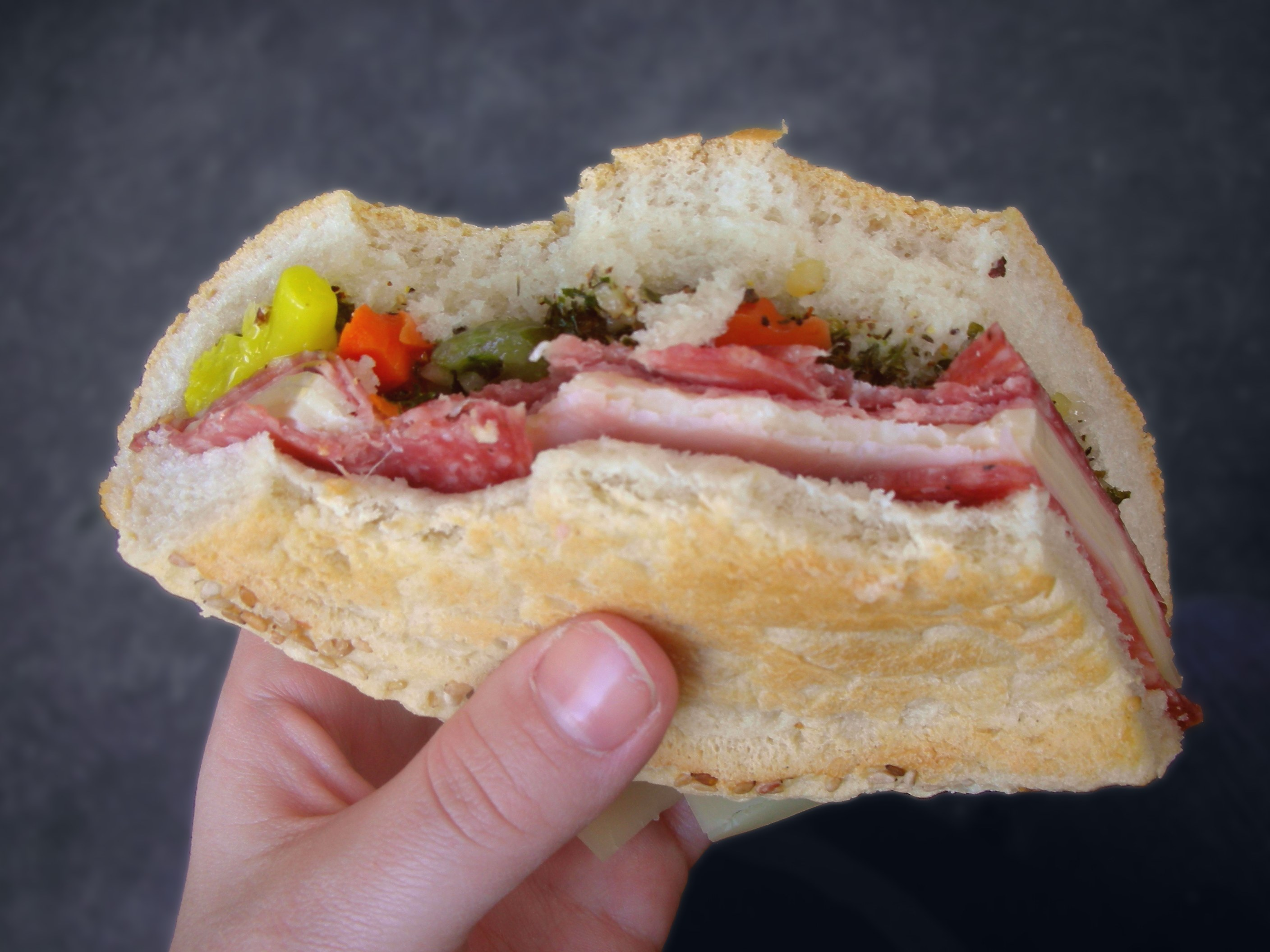 Muffeletta sandwich, New Orleans